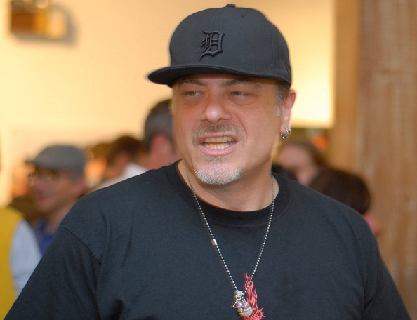 Picture of Danny Antonucci at Platform Festival in 2007.